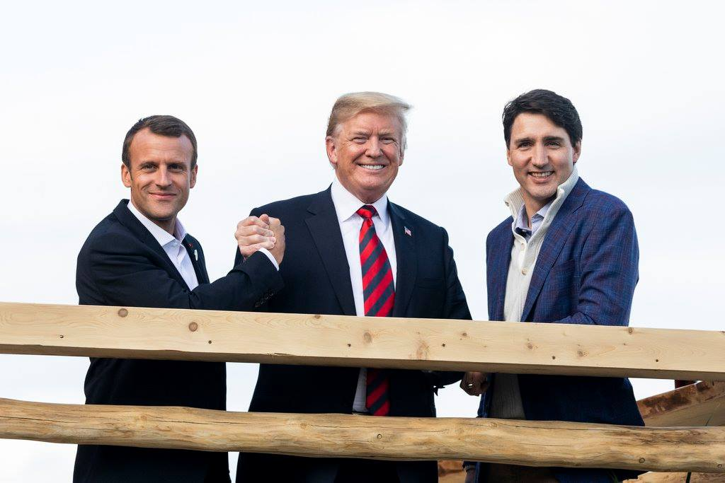 President Donald J. Trump stands with French President Emmanuel Macron and Canadian Prime Minister Justin Trudeau as they arrived for a G7 Working Dinner in La Malbaie, Quebec.